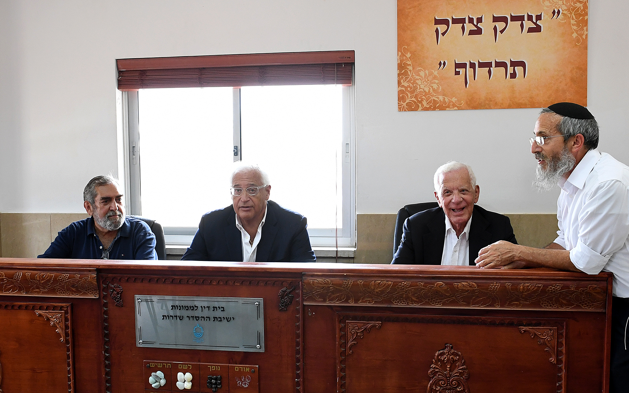 Ambassador David Friedman visit to Hesder Yeshiva of Sderot, October 2017.